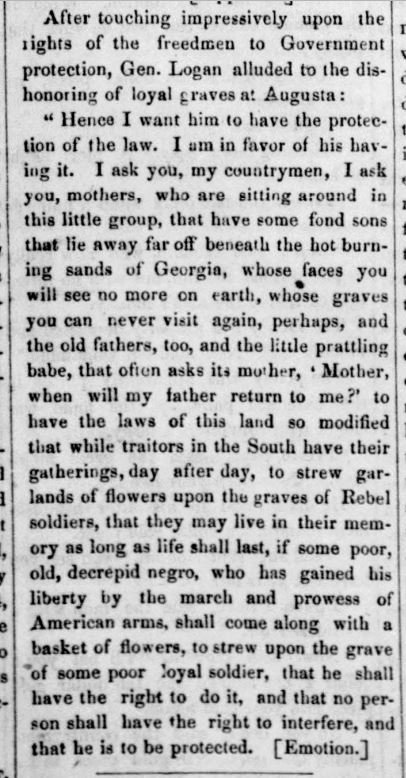 Portion of John A. Logan July 4, 1866 speech to veterans at Salem, IL as reported in the Bellows Falls Times of Bellows Falls, VT on July 20, 1866.